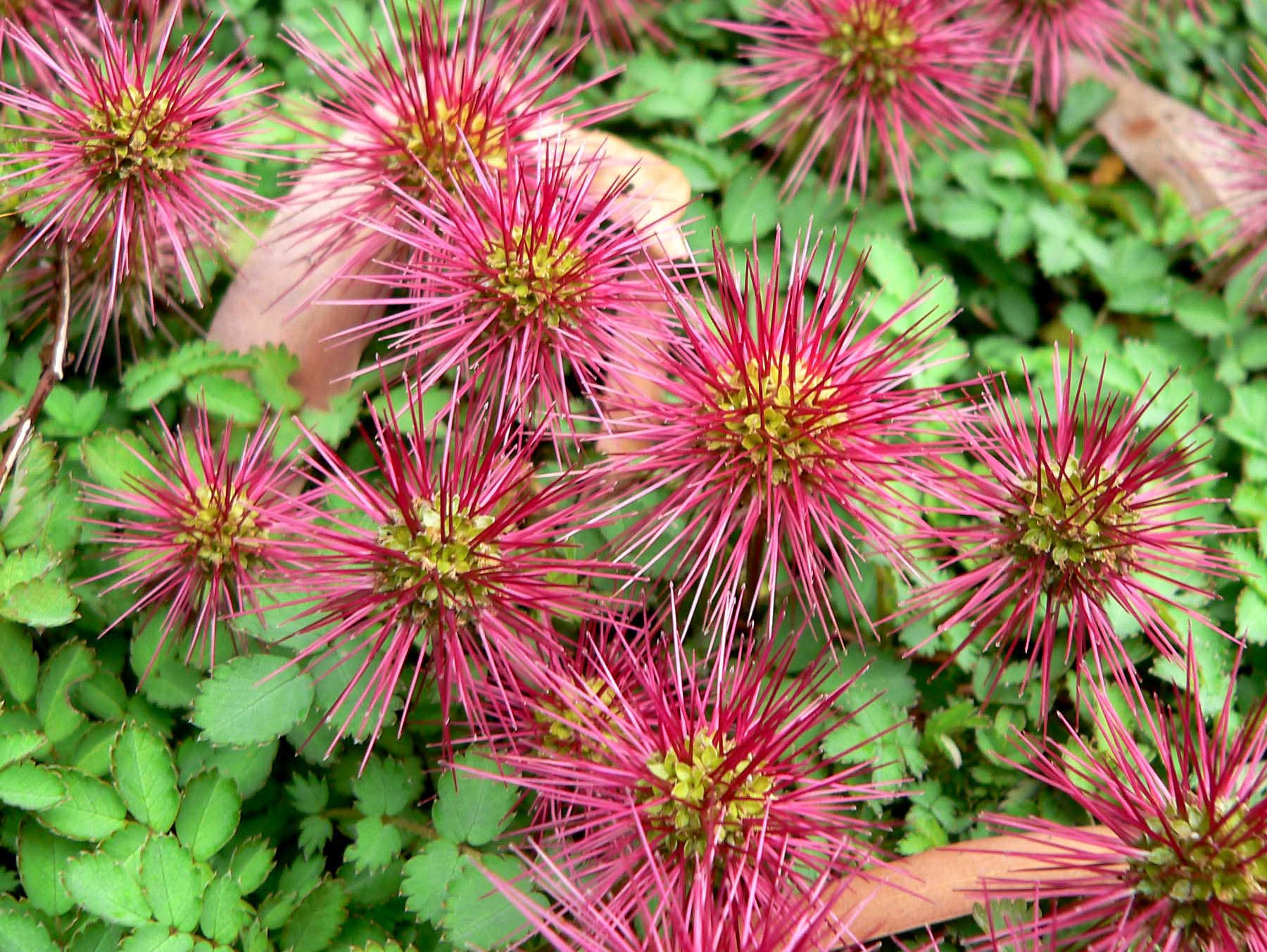 Photo of Acaena magellanica ssp. magellanica at the UBC Botanical Garden